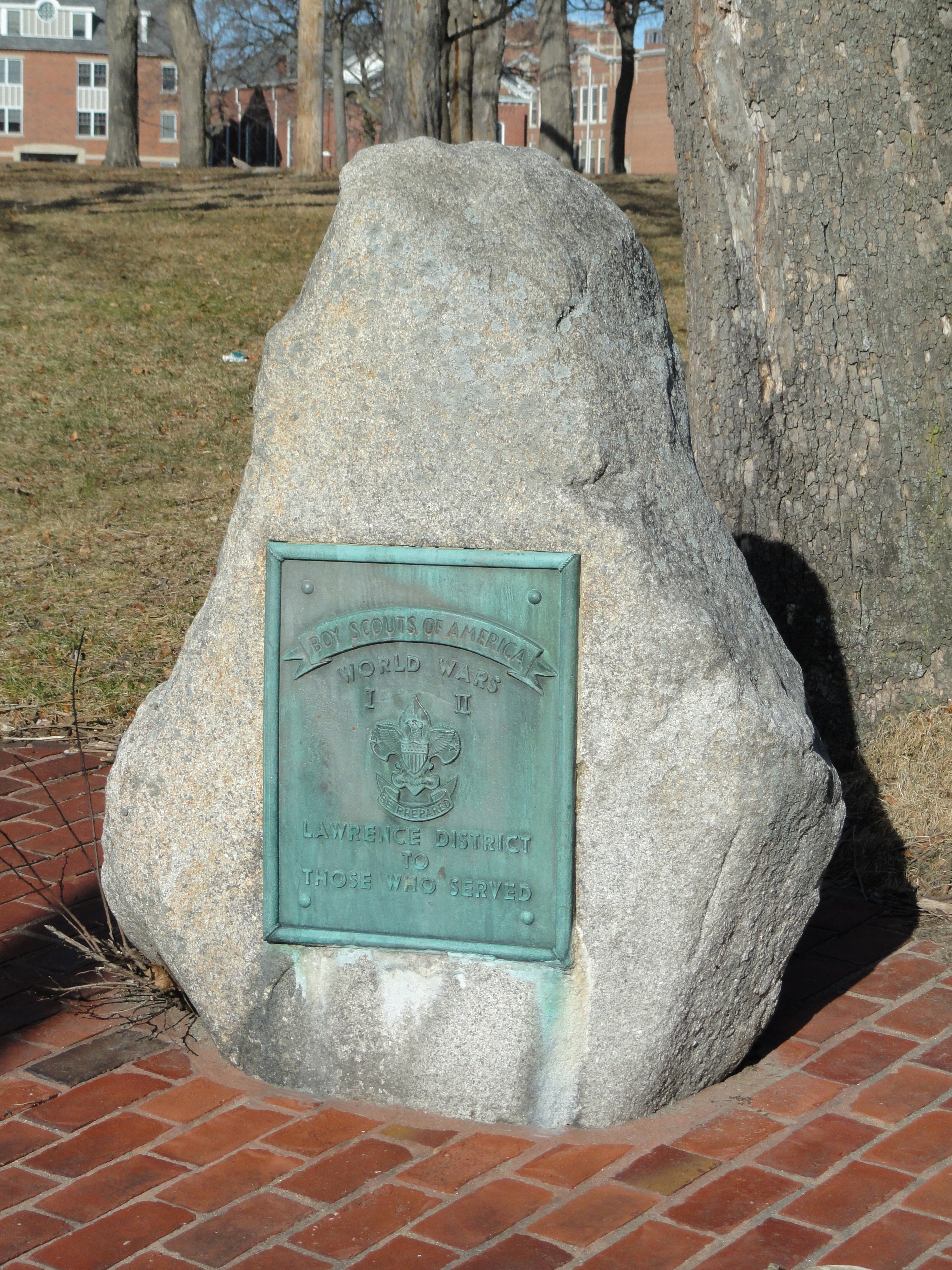 Monument in Lawrence, Massachusetts, USA.